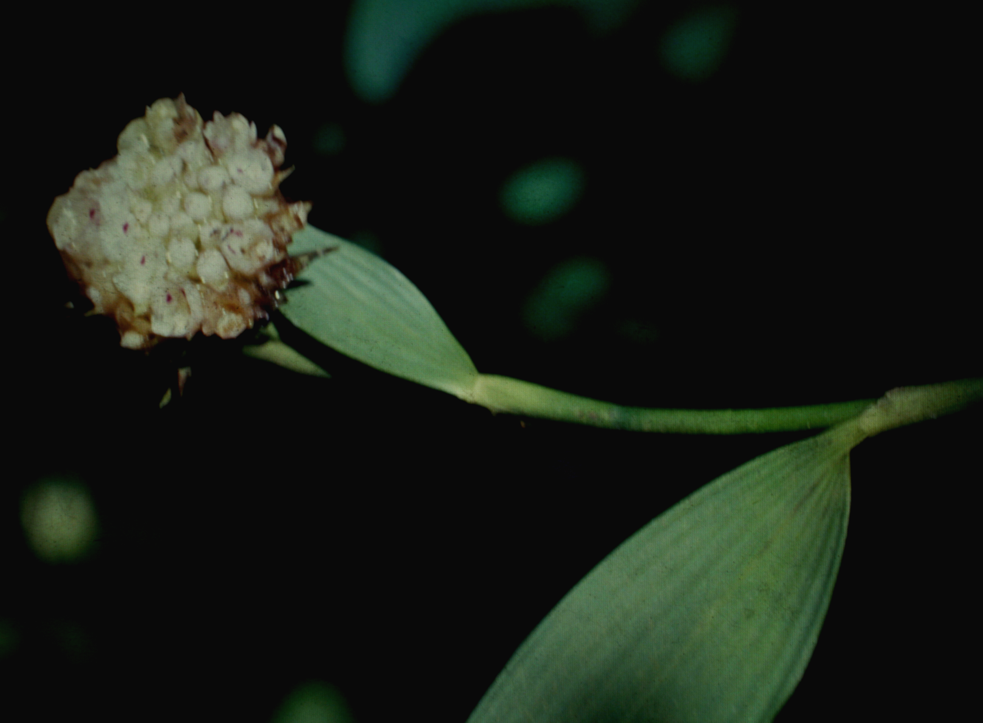 Elleanthus cephalotus, Suriname